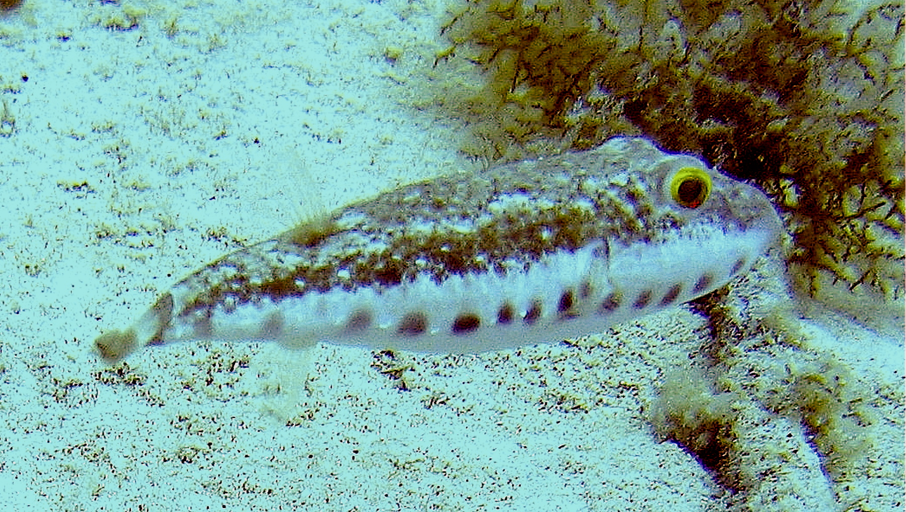 A bandtail puffer (Sphoeroides spengleri) swimming around outside Puerto Morelos, Mexico